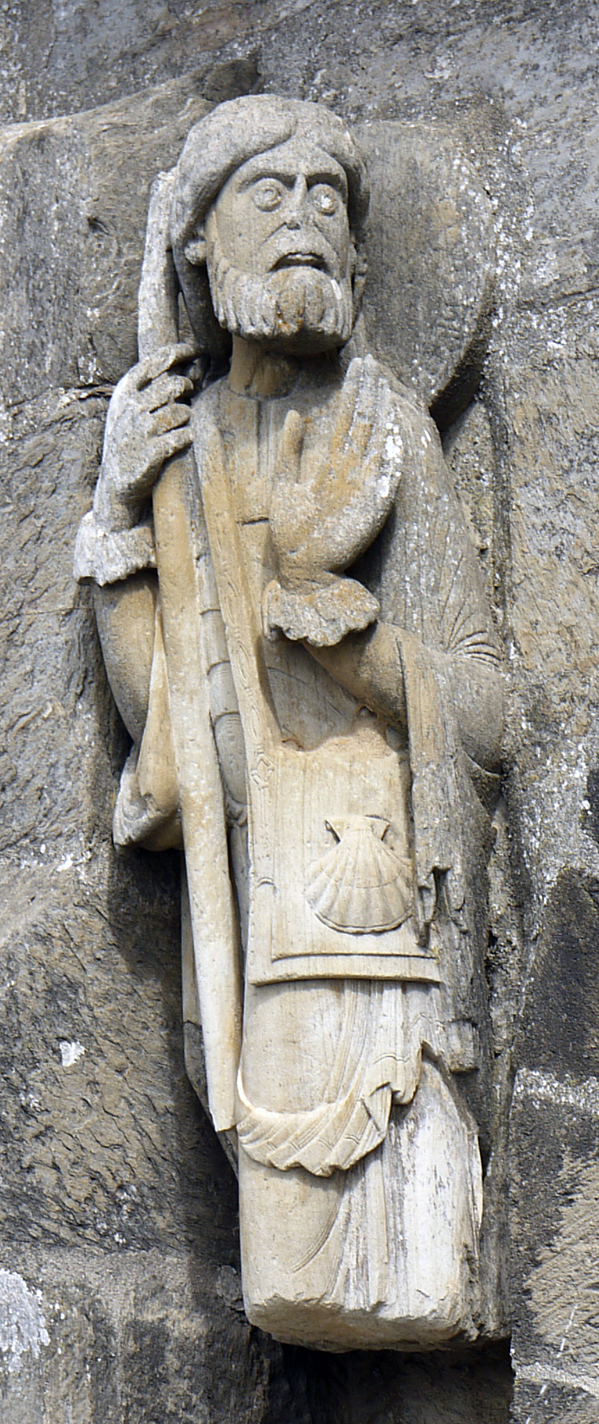 Sculpture of St. Jacob (James, son of Zebedee), at the romanic church in Santa Marta de Tera, Benavente, Zamora, Spain.